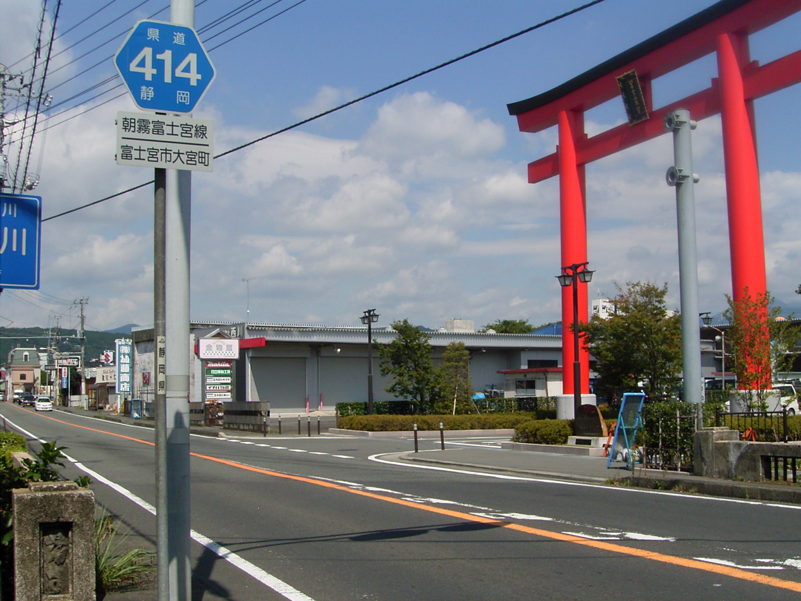 Torii in Fujinomiya-city Shizuoka, Japan